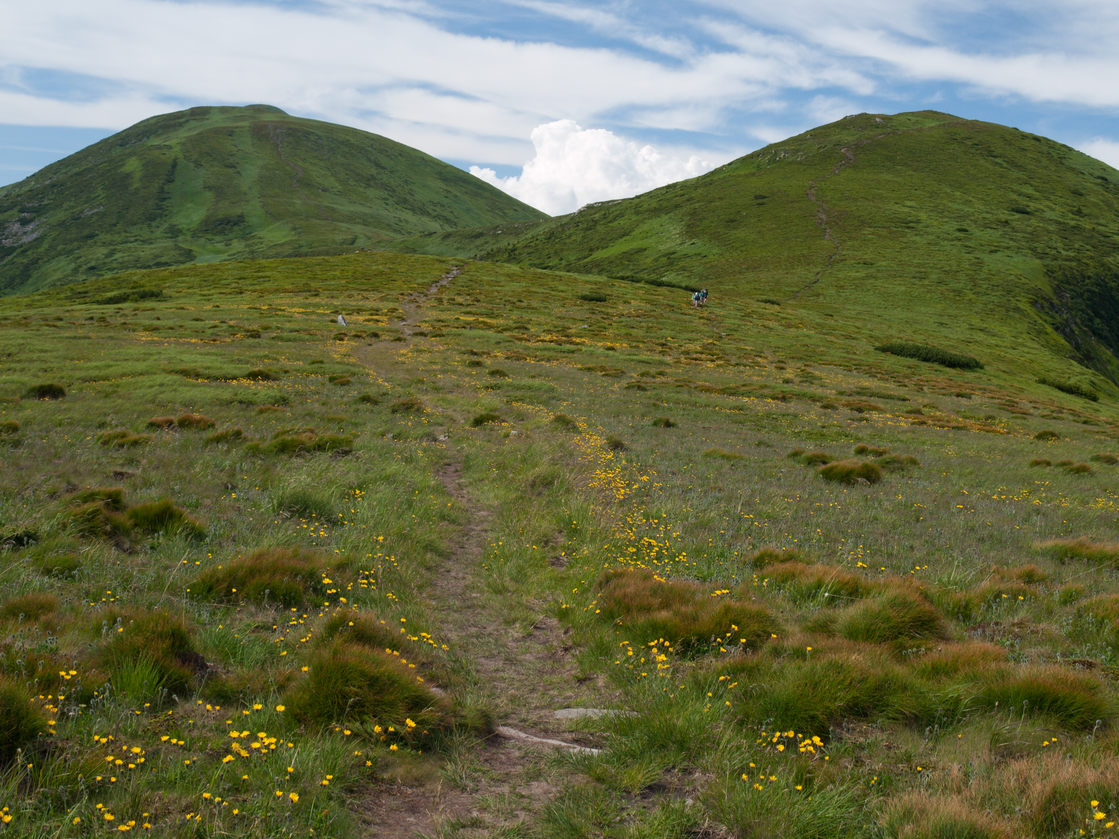 Pozhyzhevska (on the right) and Breskul (on the left).